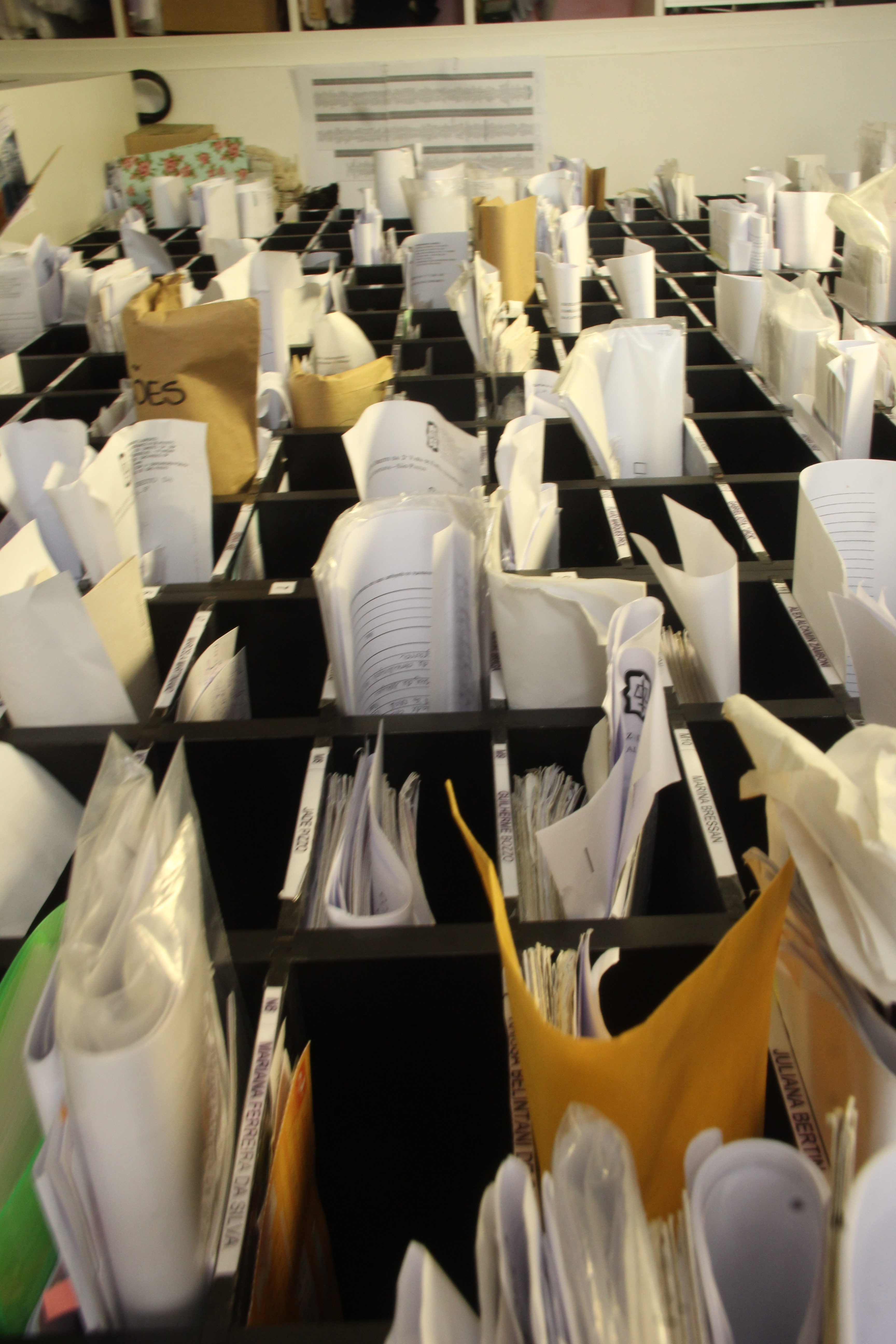 escaninhos dos estagiários